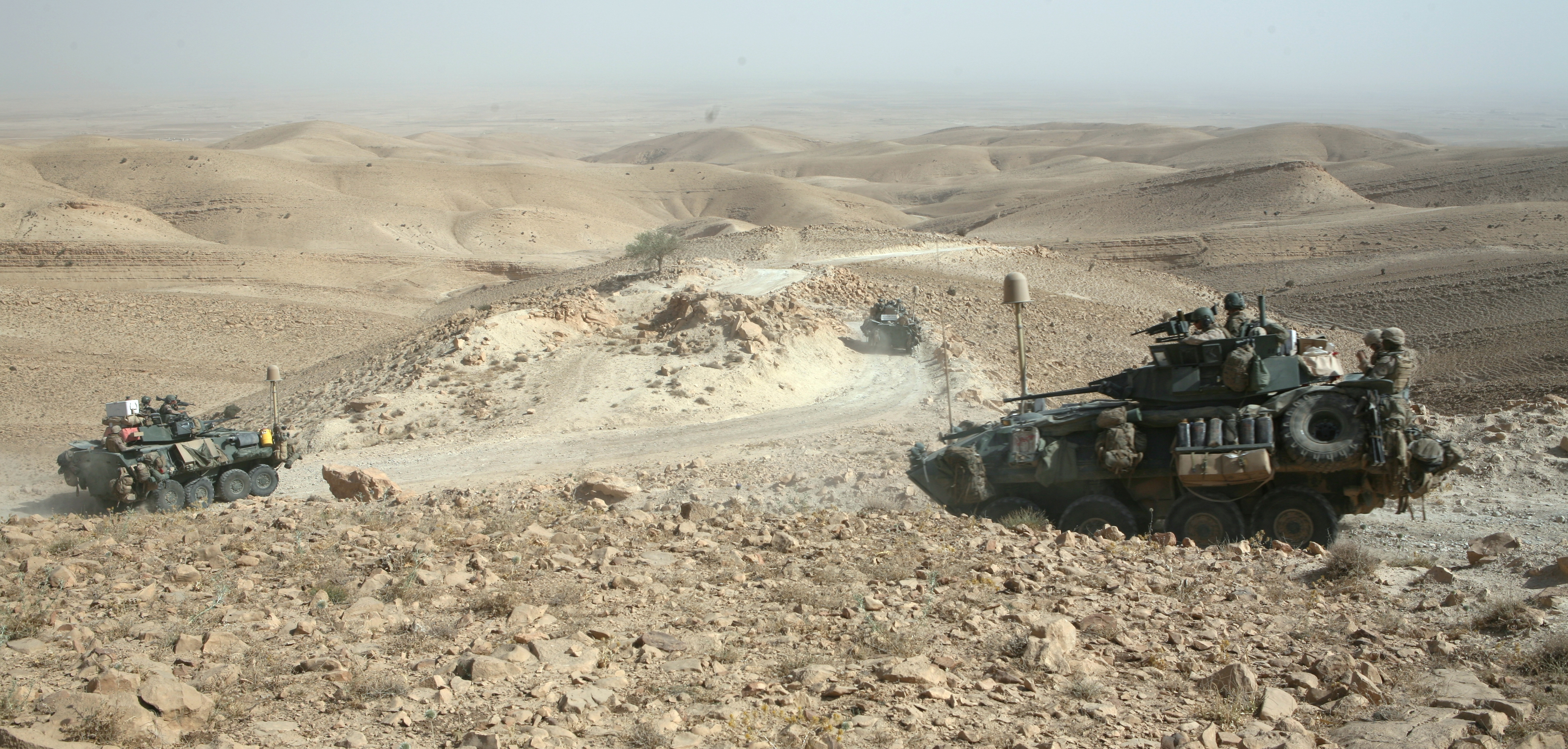 Caption: Light armored vehicles with Task Force 3rd Light Armored Reconnaissance Battalion, Regimental Combat Team 8, traverse the rocky terrain of the Sinjar Mountains on a constant basis while deployed to Ninewa province, Iraq. The battalion was one of the first LAR battalions to enter Iraq and will be the last LAR battalion to leave.